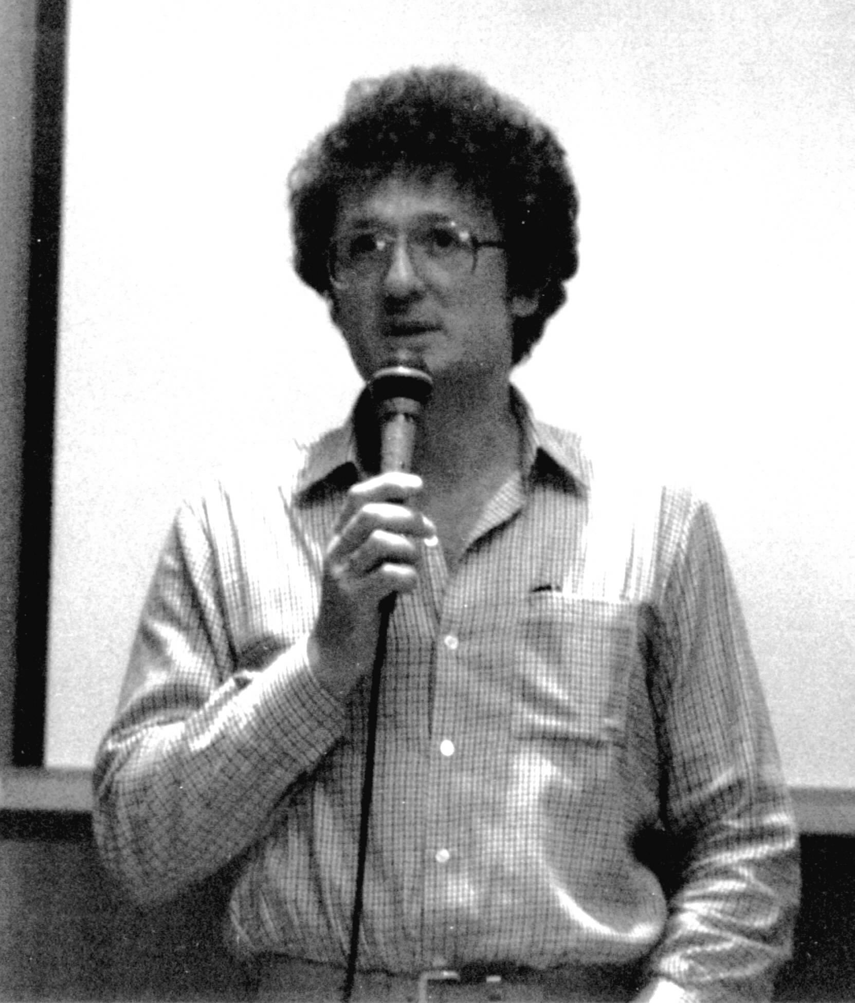 I took this picture! DrWho 19:12, 29 April 2007 (UTC)